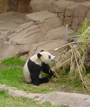 Hua Mei, the baby giant panda born at the San Diego Zoo in en:2000.